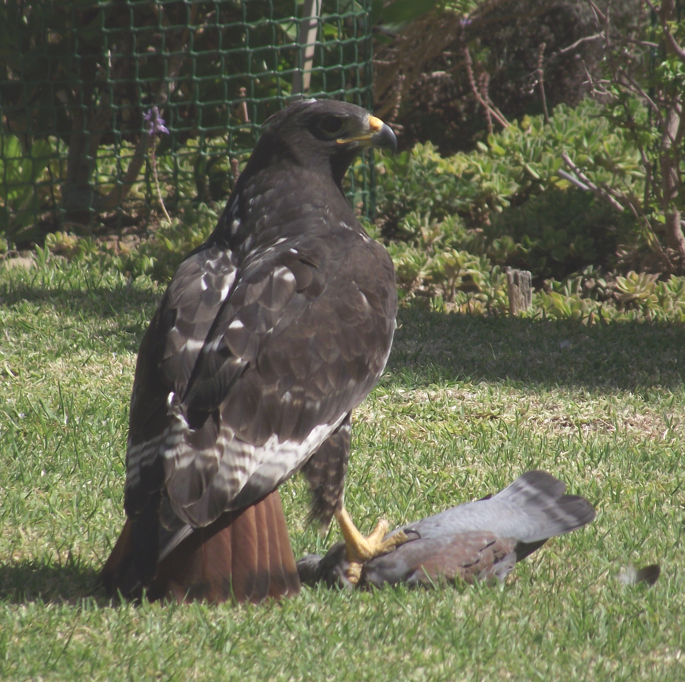 A Jackal Buzzard with a Speckled Pidgeon under its claw.